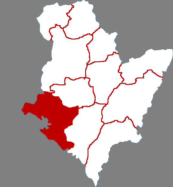 Location of Jizhou county-level city in Hengshui City, China